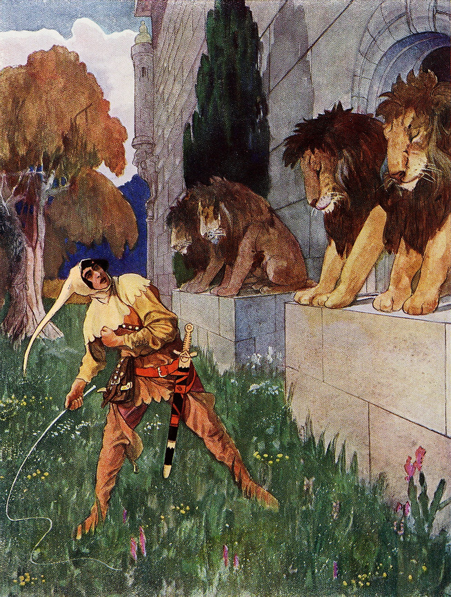 Illustration by Czech painter Artuš Scheiner for a Czech national fairy tale (from a collection by Božena Němcová) Česky: Ilustrace Artuše Scheinera k pohádce Boženy Němcové Šternberk